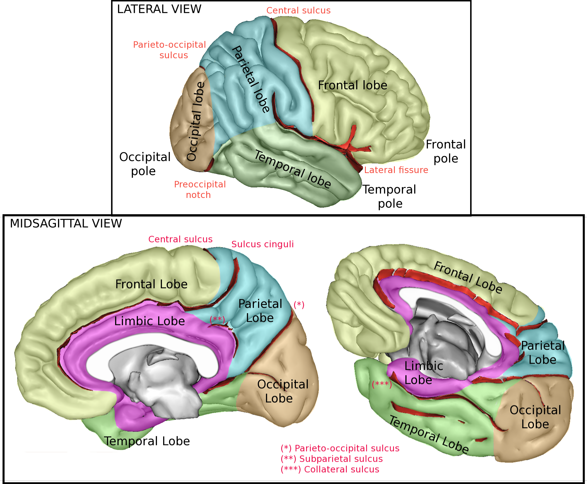 Ænglisc: Brain lobes, main sulci and boundaries